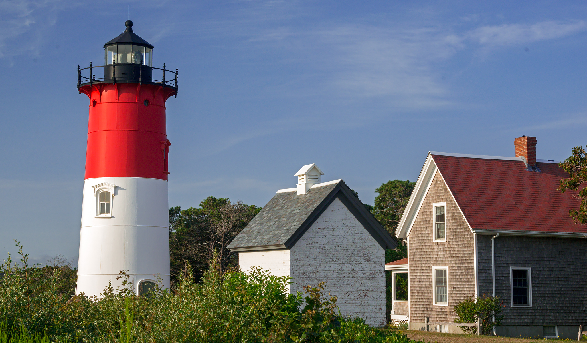 Nauset Light (lighthouse) on Cape Cod, Eastham, MA